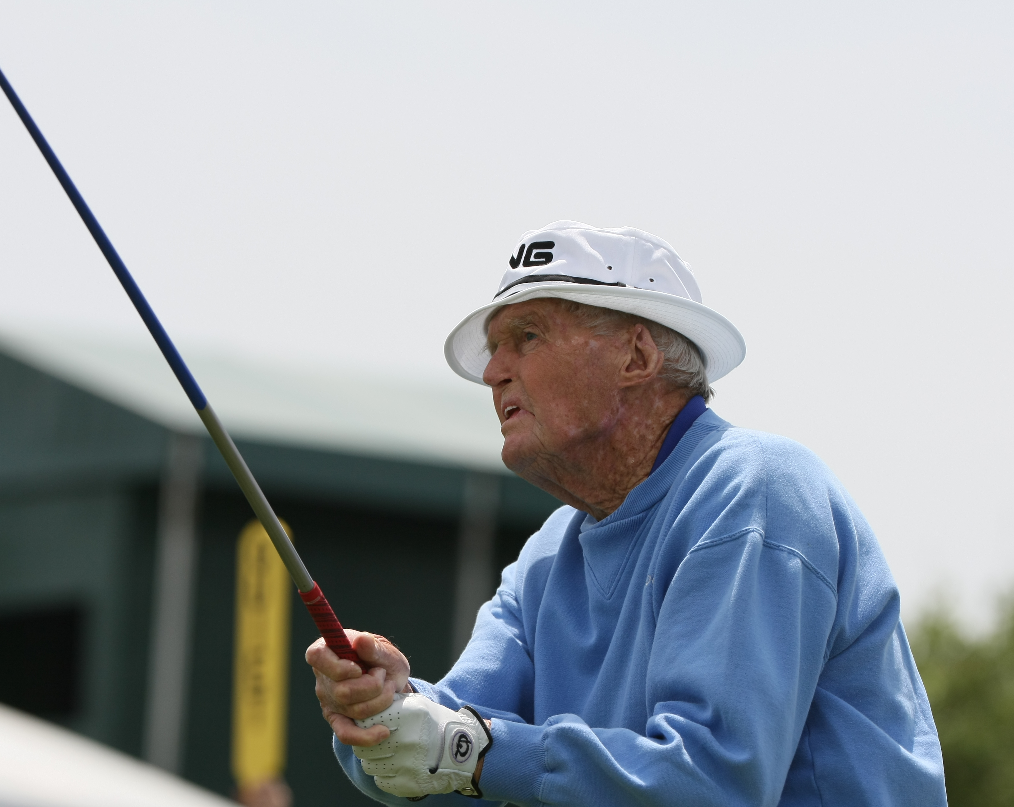 Legends of Golf in Savannah, GA April 19, 2010